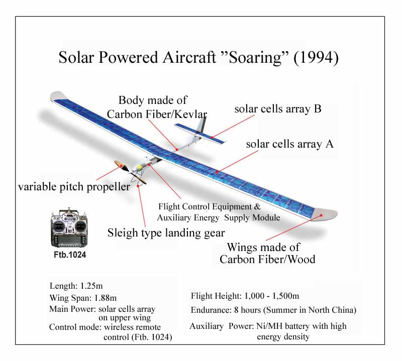 Summary of Configuration and Performance Parameter of “Soaring”